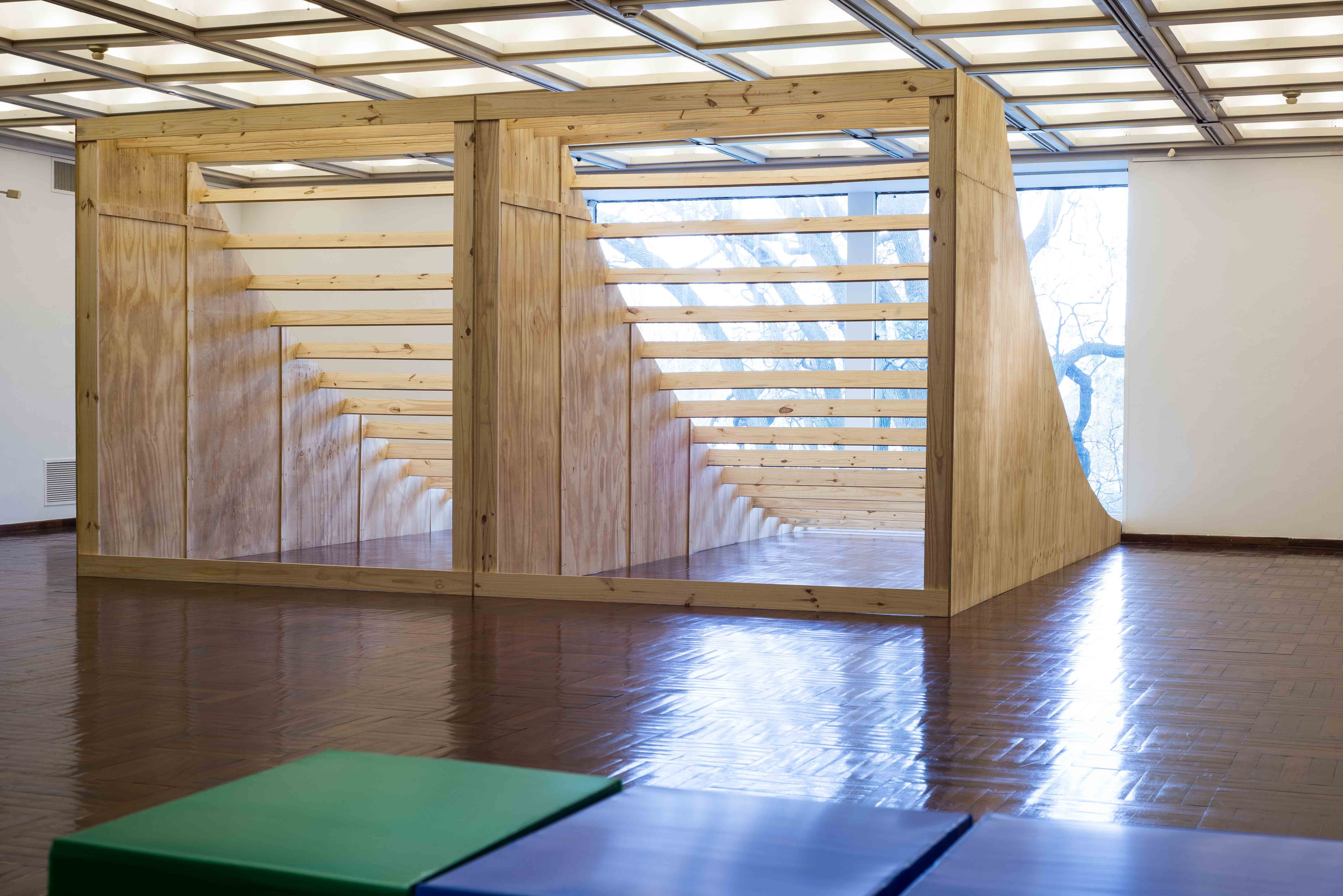 Dimensiones variables